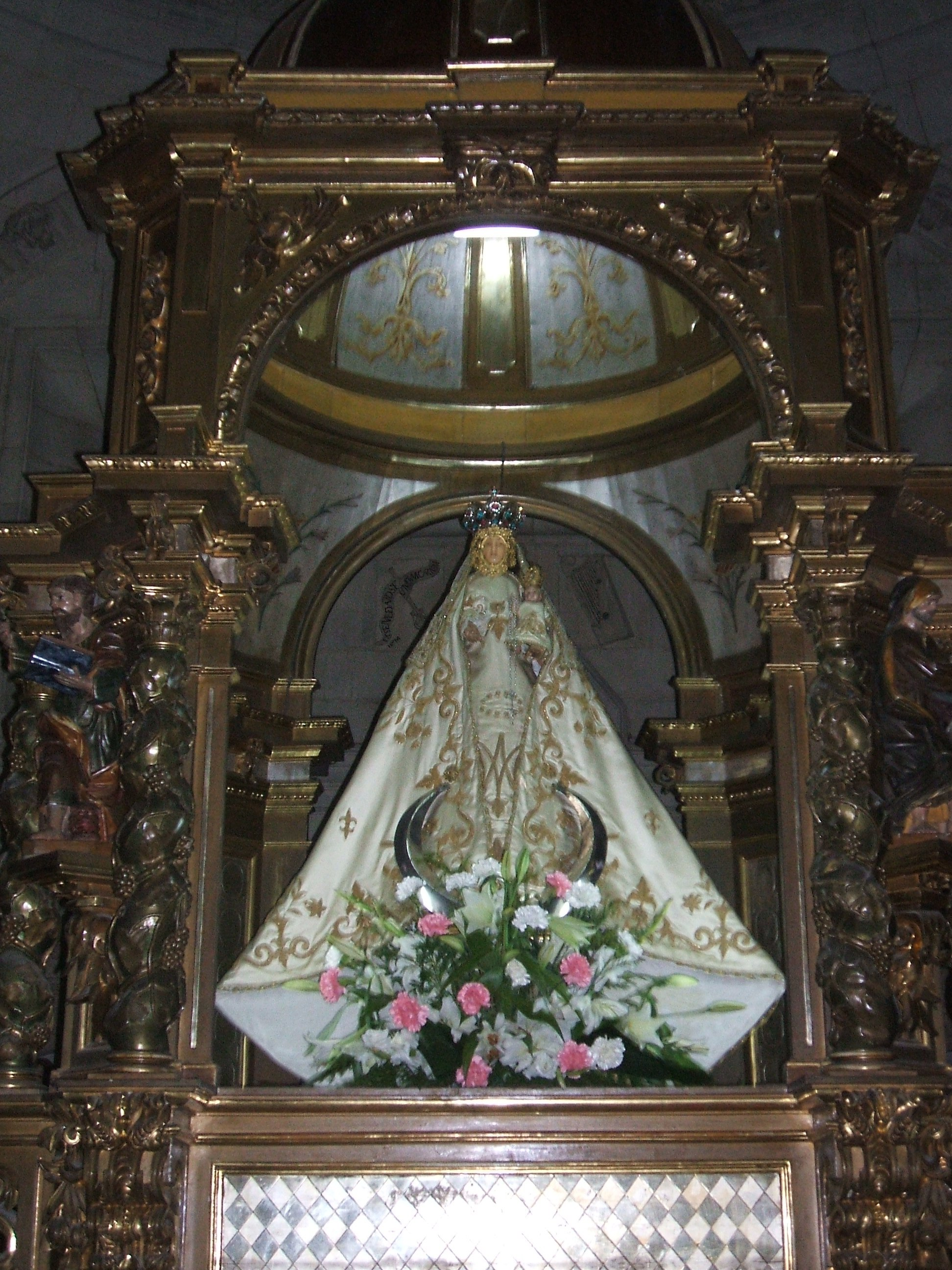 Our Lady of the Valley, in Saldaña (province of Palencia, Spain)